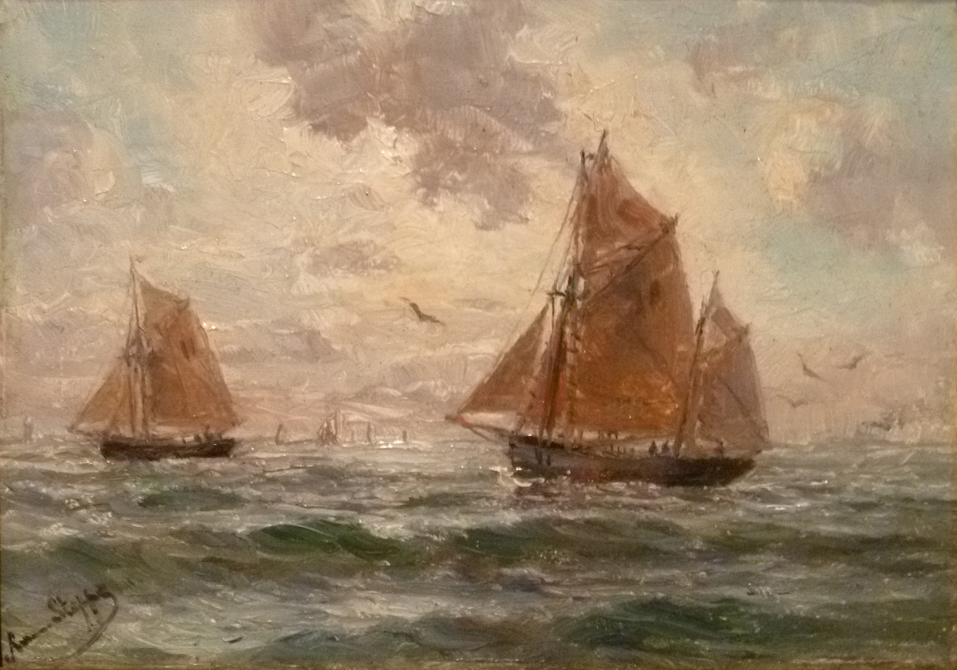 "Spring afternoon at the North Sea" oil on panel (12 x 16 cm) by the Belgian painter Romain Steppe (1859-1927); private collection